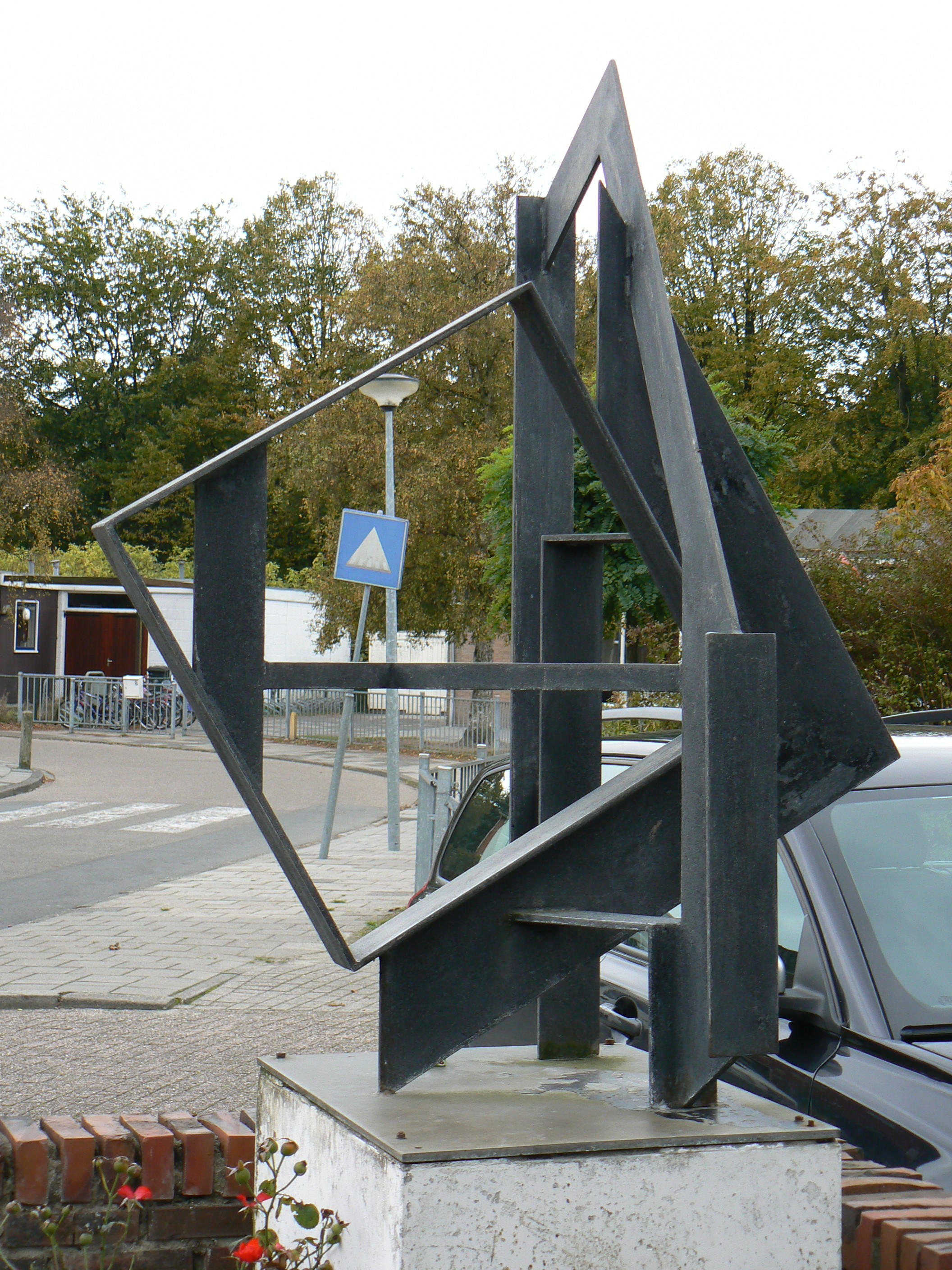 sculpture Untitled (1955) by A. Volten in Uithuizen/The Netherlands